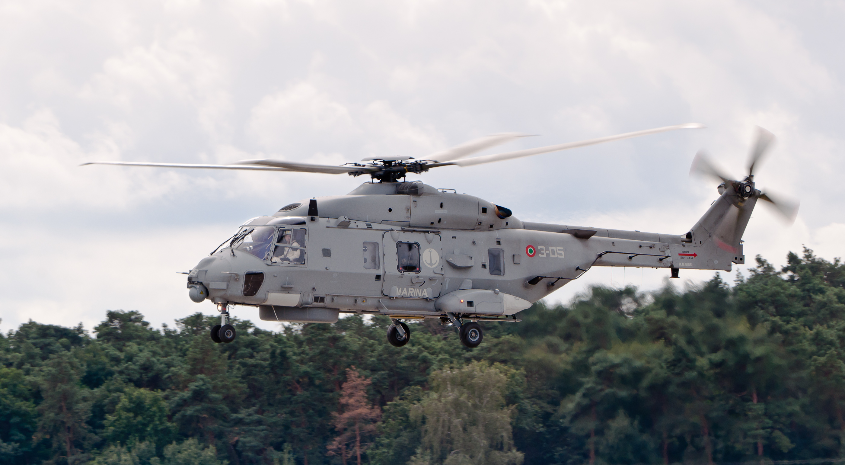 NH Industries NH-90 NFH (cn 1042, reg. MM81581) belonging to the Italian Navy, flying a display at ILA Berlin Air Show 2012.